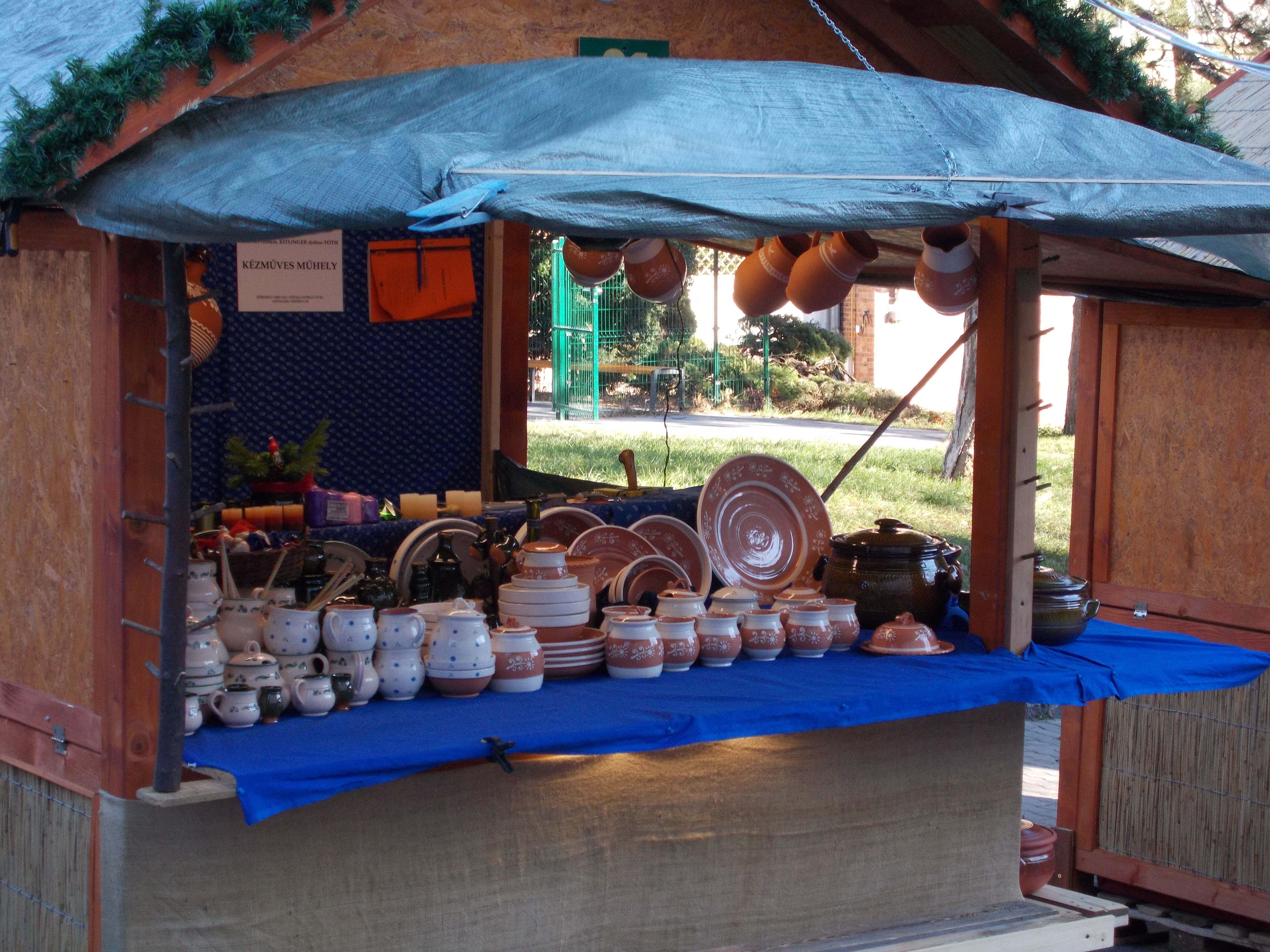 Christmas Fair, Handmade pottery - Budapest XII. Kiss János altábornagy utca